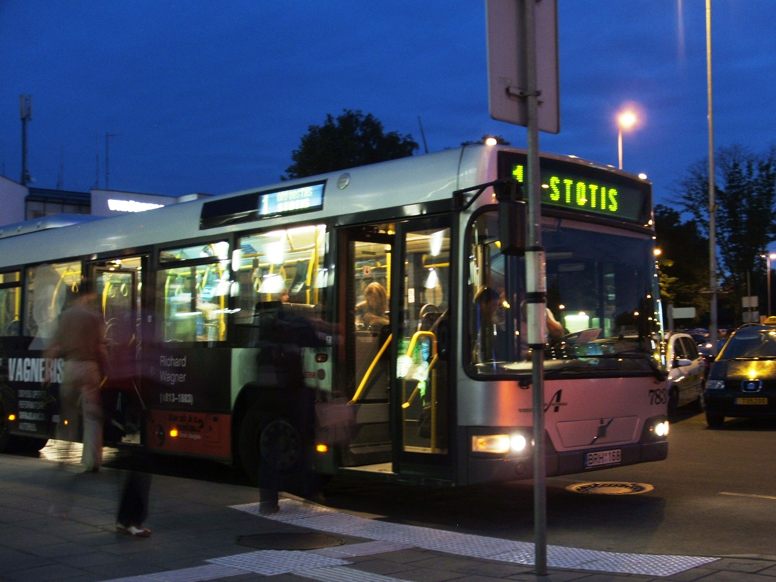 Bus service at Vilnius airport. Volvo 7700 city bus (#783) built 2006.